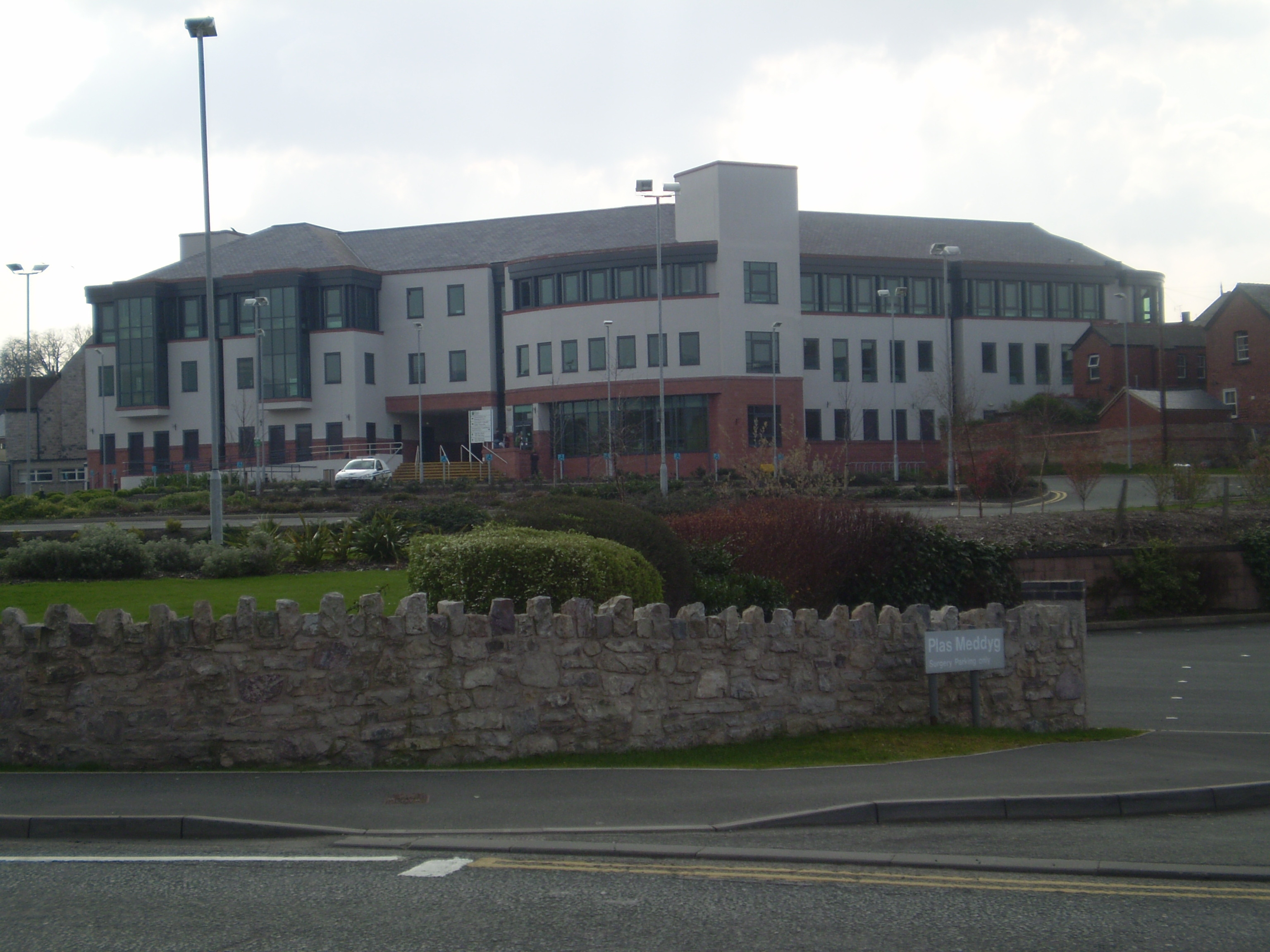 Headquarters of Denbighshire County Council in Ruthin, built 2004-05.